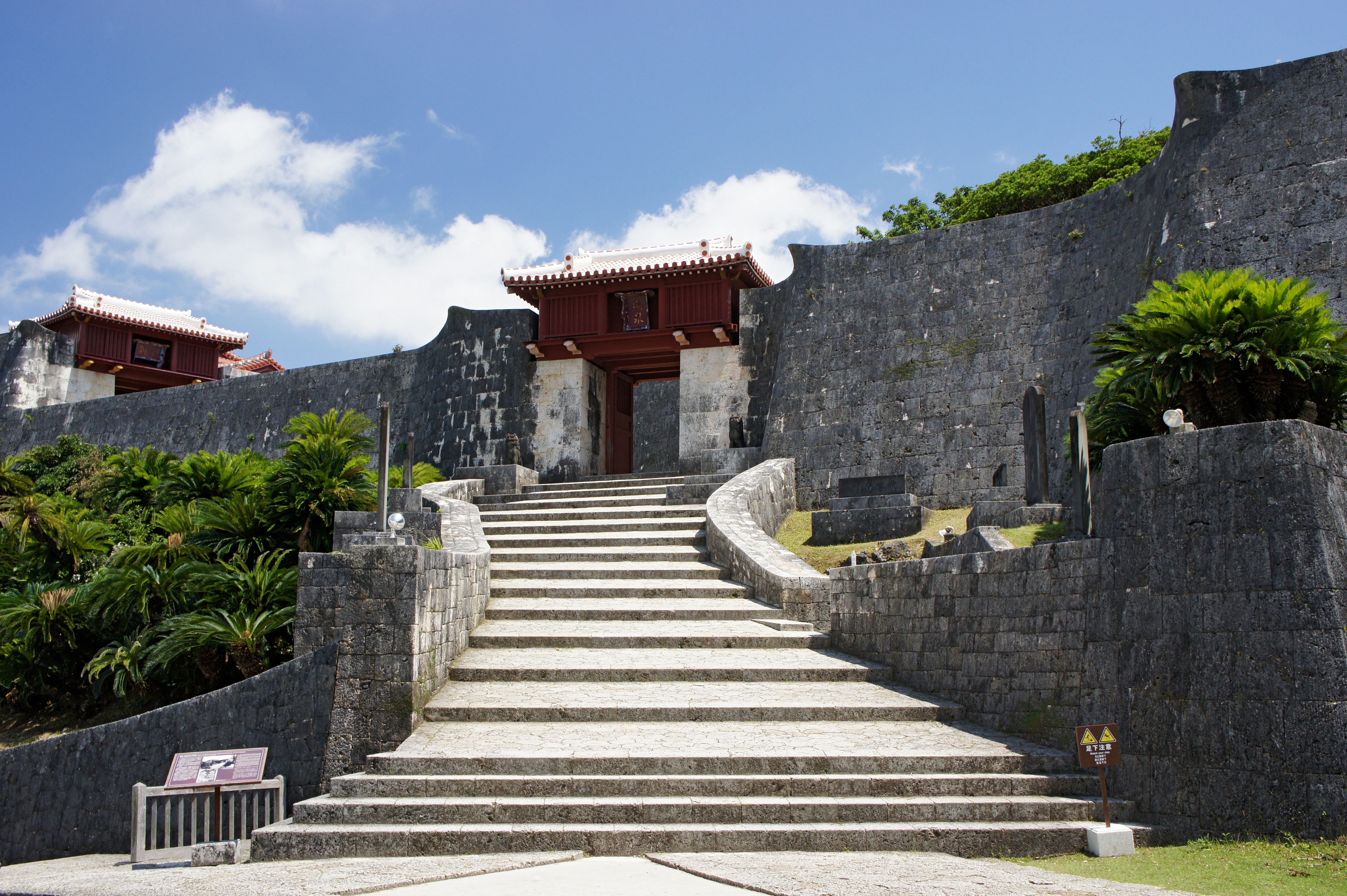 Shuri Castle in Naha, Okinawa prefecture, Japan. It was registered as part of the UNESCO World Heritage Site "Gusuku Sites and Related Properties of the Kingdom of Ryukyu".